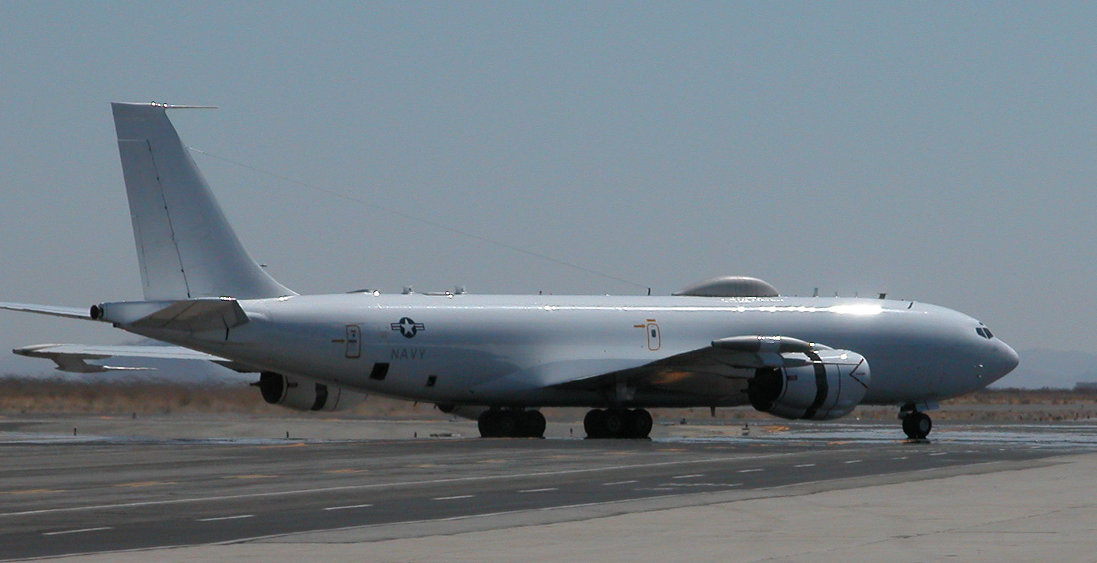 U.S. Navy E-6 Mercury